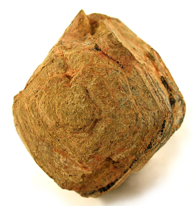 Betafite Locality: Antanifotsy pegmatite, Faratsiho District, Vakinankaratra Region, Antananarivo Province, Madagascar (Locality at ) Size: miniature, 5.1 x 4.3 x 3.1 cm Betafite Betafite is a strange brew of uranium, titanium, and niobium, a member of the pyrochlore group of species. This is a huge, floater betafite crystal with pretty good aesthetics for a "rare earth ugly"; and also unusually complete and symmetric for a large crystal. Athough not from the type locality mine for the species, this is from the same pegmatite deposit.